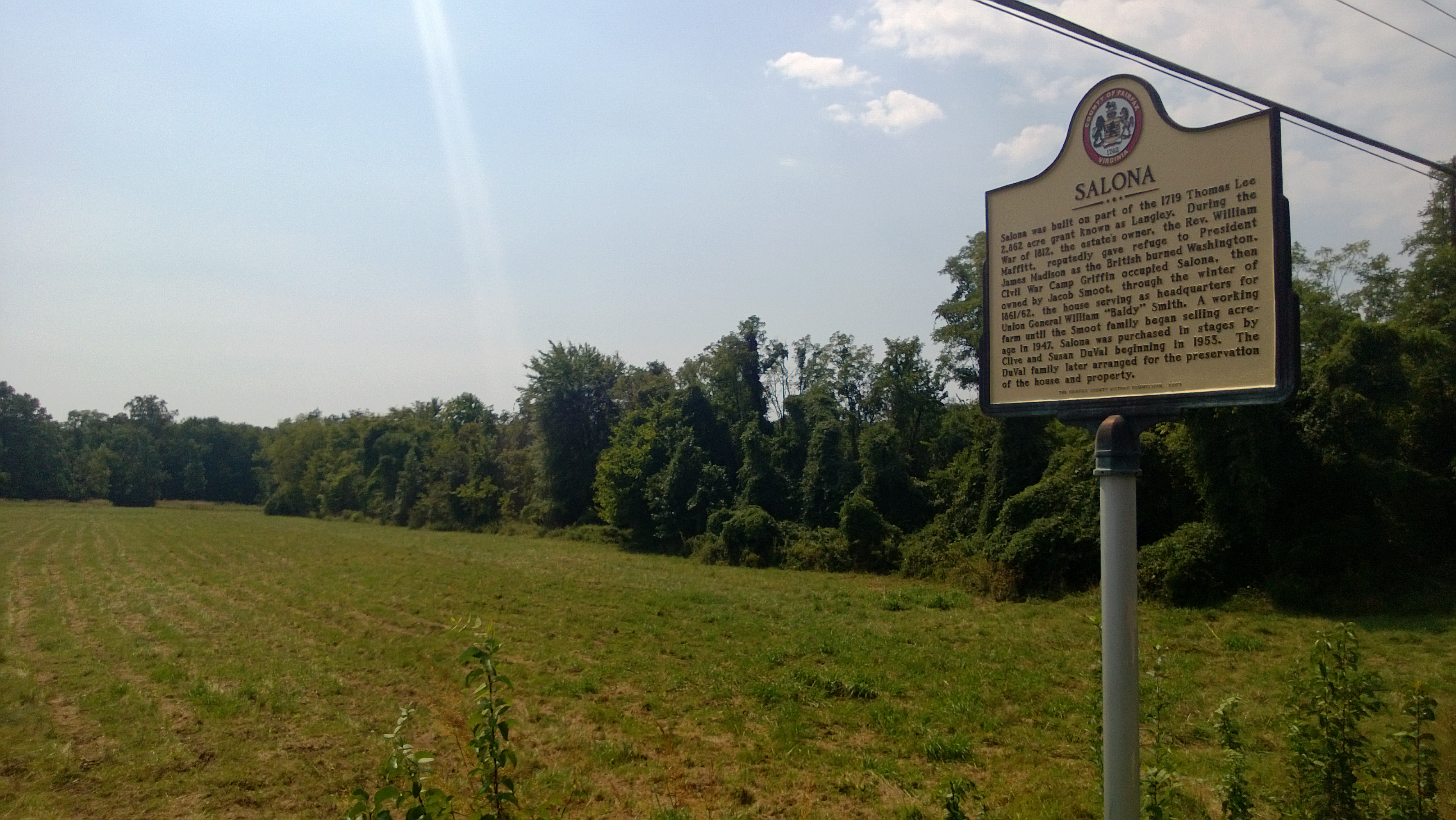 An image of the Salona (McLean, Virginia) field from the frontage on Dolly Madison Rd.